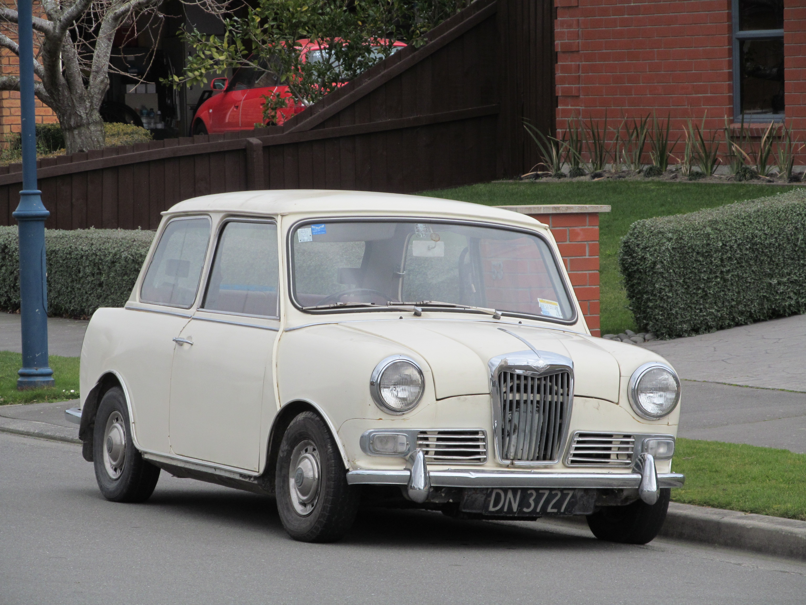 A lovely surprise whilst out for a walk yesterday morning near my house. This is quite a late Elf, as 1969 was the last year of production.